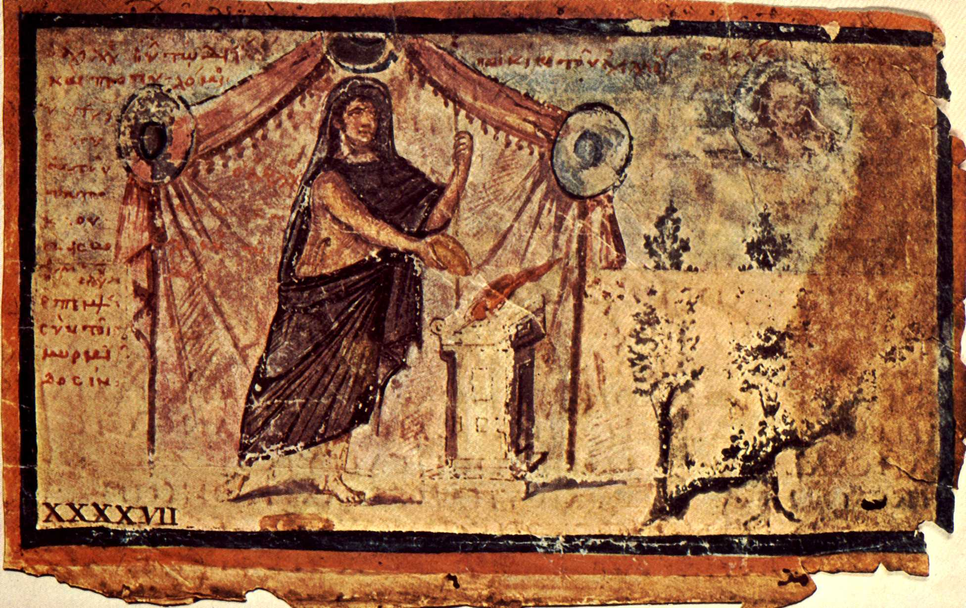 Picture 47 of the Ambrosian Iliad, Achilles sacrificing to Zeus for Patroclus' safe return, as seen in Iliad Book 16. 220-252.